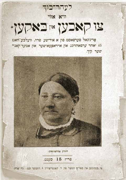 Lehr-bukh vi azoy tsu kokhen un baken (Textbook on How to Cook and Bake), published in New York, c. 1901, was the first Yiddish cookbook published in the United States. The author, Hinde Amchanitzki, is pictured on the cover. ייִדיש: לער-בוך ווי אַזוי צו קאָכען און באַקען, ארויס אין ניו יארק, 1901, איז געווען דער ערשטער ייִדיש קוקבוק ארויס אין די פאַרייניקטע שטאַטן. דער מחבר, הינדע אַמטשאַניטזקי, איז געוויזן אויף די דעקן